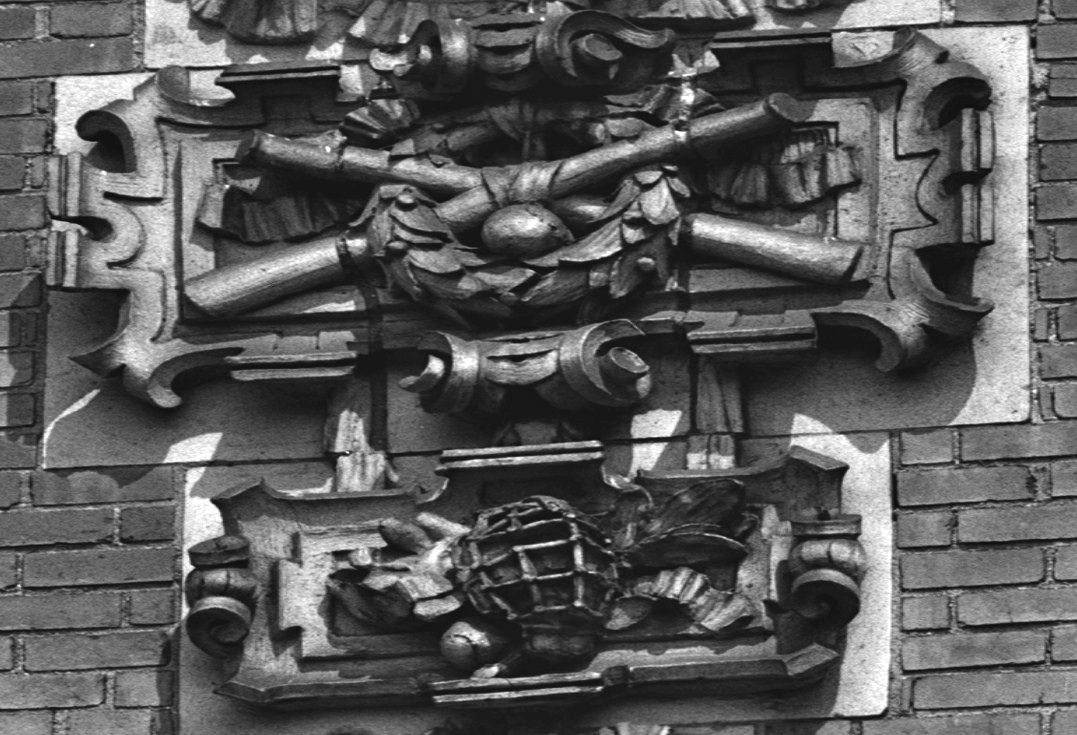 Shibe Park after abandonment; very tight crop on bas-relief baseball motifs from File:ShibePark1973HABS7of9.jpg